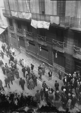 Local de los Sindicatos Libres en la calle de la Unión (Barcelona), clausurado el 14 de abril de 1931.